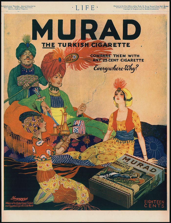 Advertisement for "Murad" Turkish cigarettes, from the inside front cover of the May 2nd, 1918 issue of LIFE magazine. US advertising artist's idea of exotic harem-like Turkish scene.